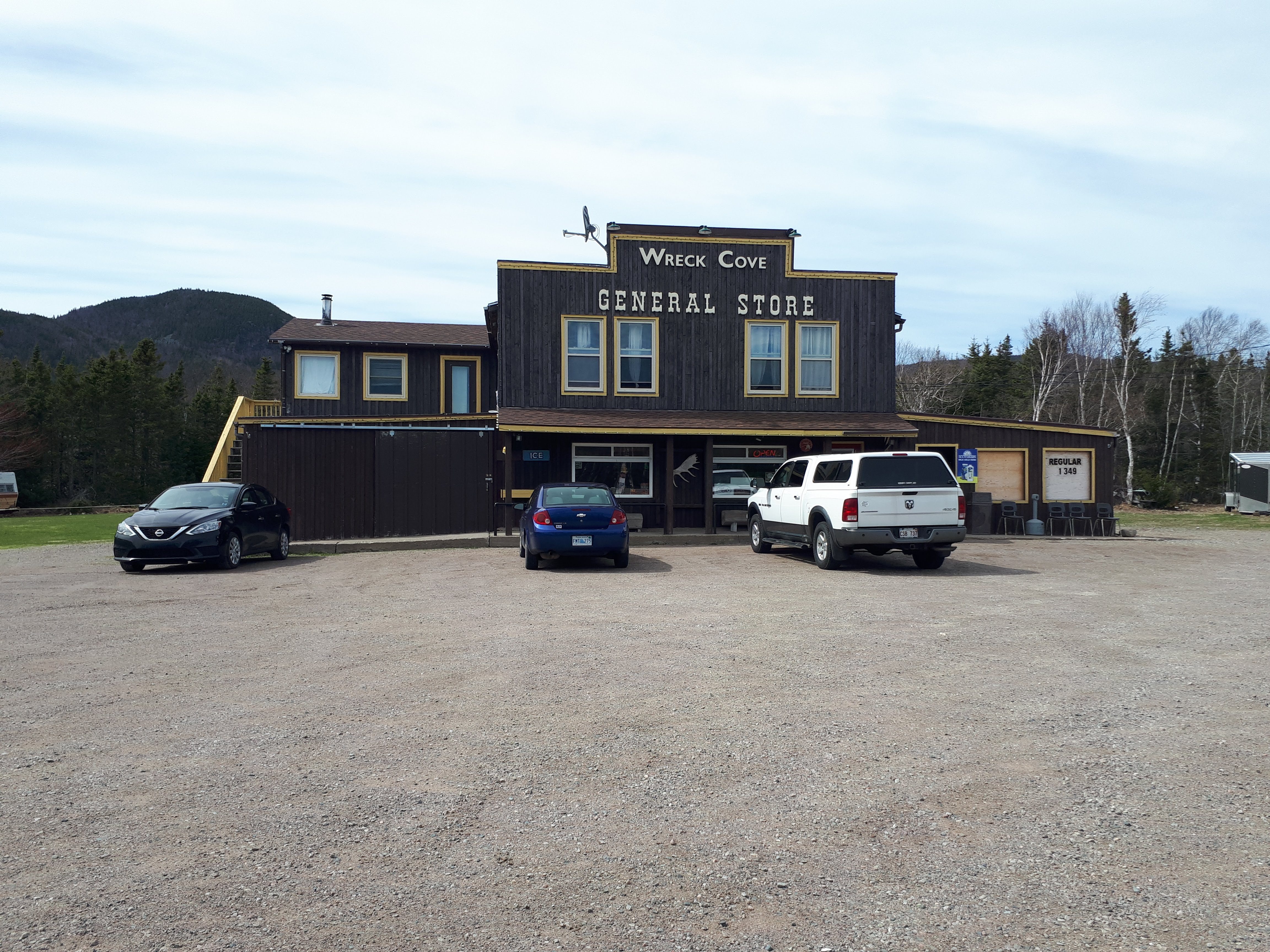 Store located within the Cabot Trail